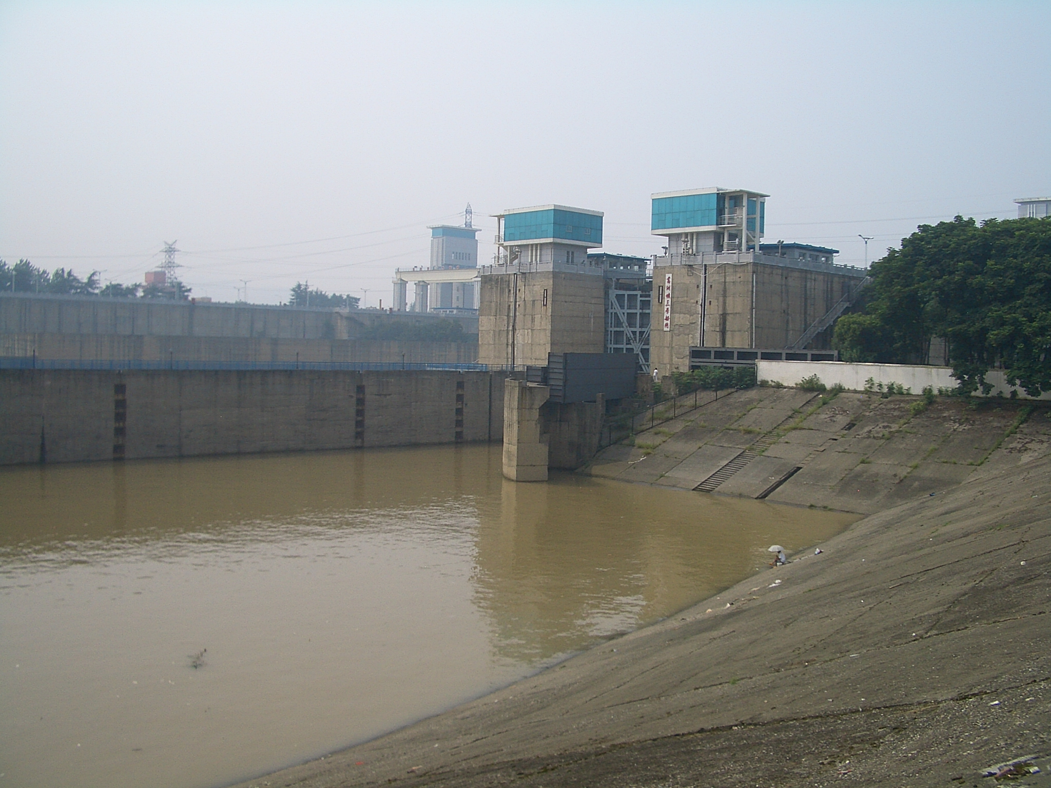 Gezhouba Dam, and downstream access to its locks, seen from the riverside park downstream of the dam